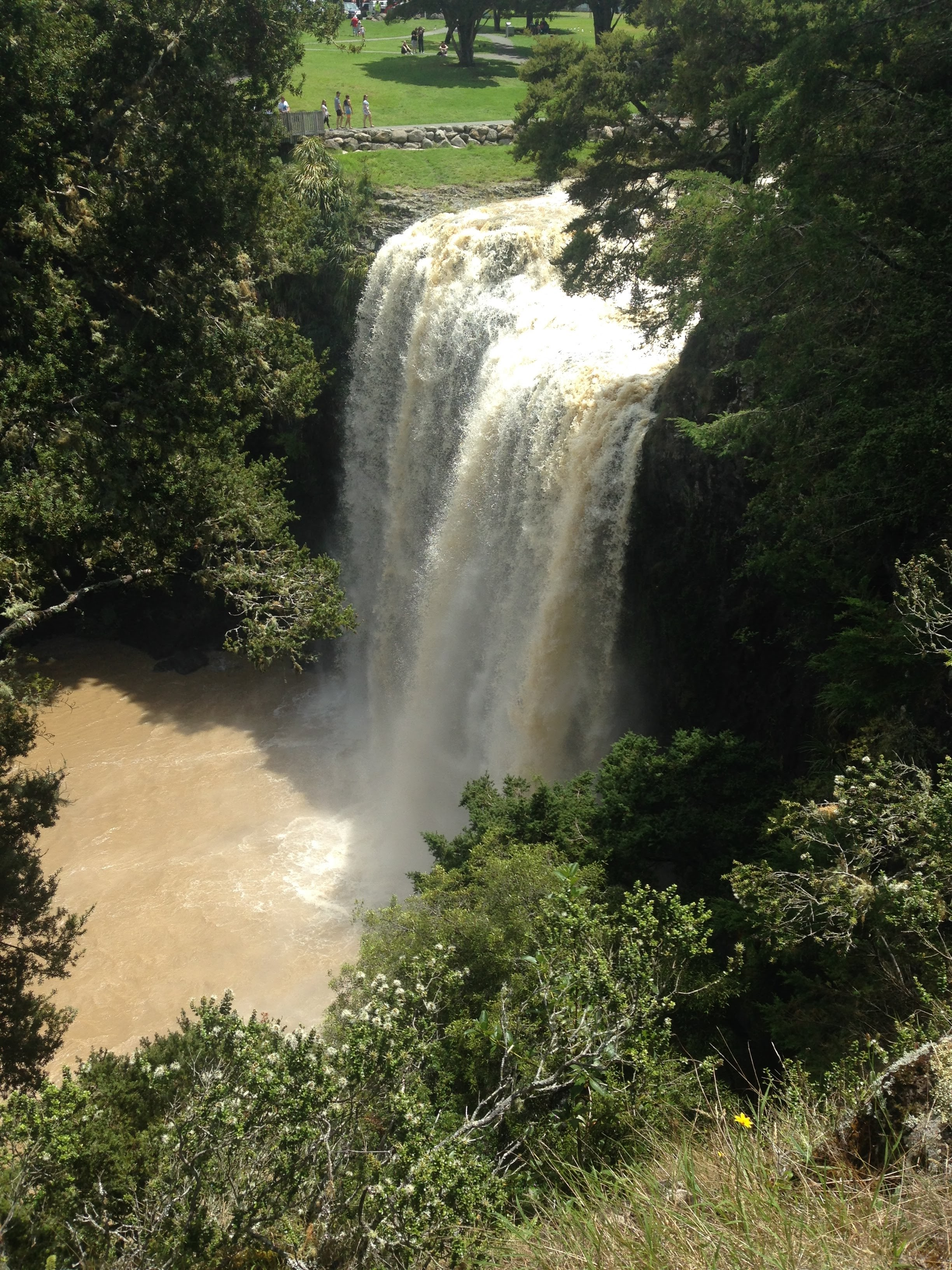 Whangarei Falls after some heavy rain